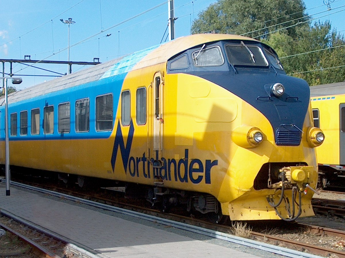 RAm, former Dutch/Swiss "TEE", later "Northlander", back in The Netherlands; at Aswplz (Amsterdam, werkplaats Zaanstraat)